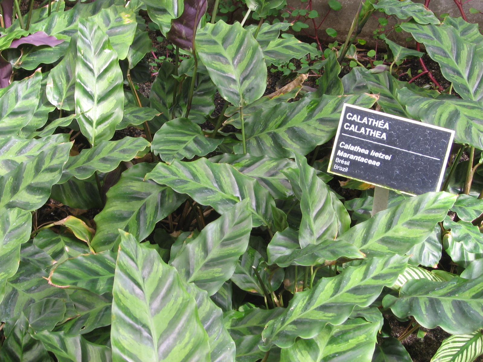 Calathea lietzei, Jardin botanique de Montréal.